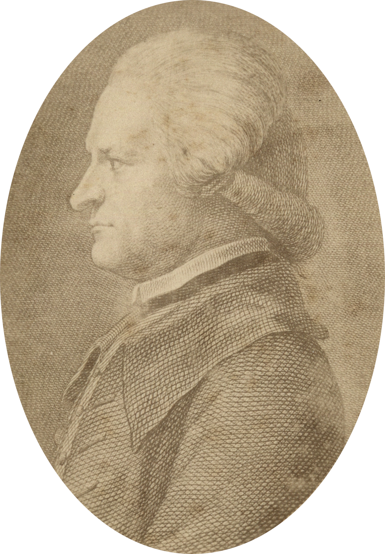 Gašper Rojko (1744-1819), slovene theologian, priest and historian.